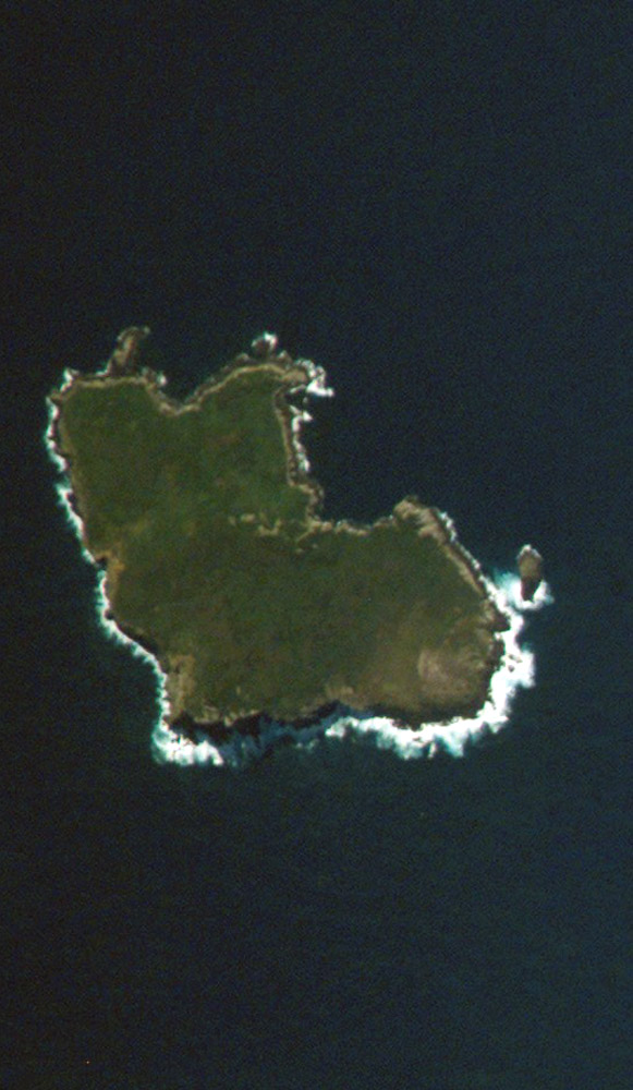 NASA astronaut image of South East Island/Rangatira, Chatham Islands, New Zealand